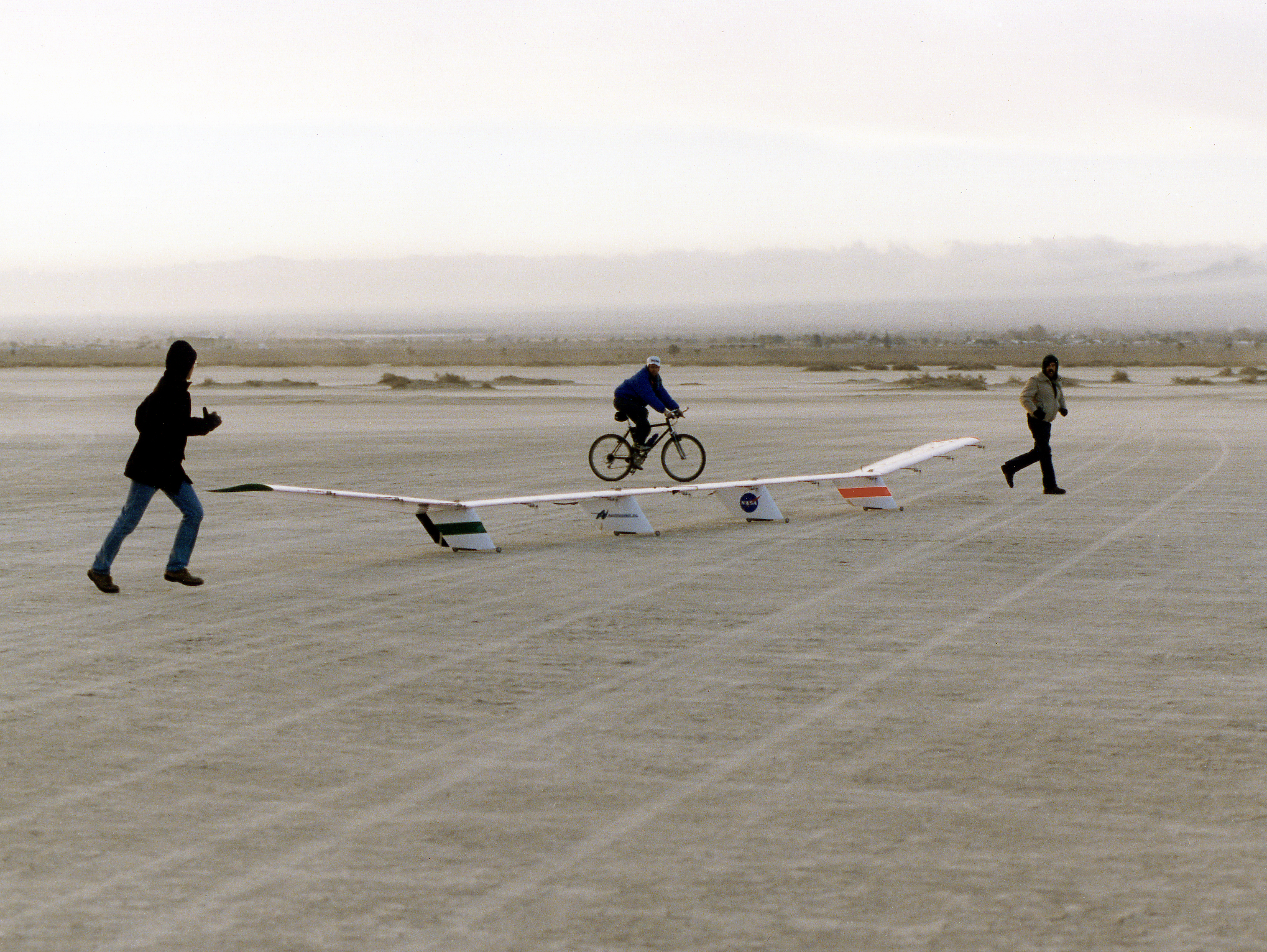 Crewmen jog or cycle alongside, a quarter scale model of Aerovironment's Centurion flying wing, as it roll across Mirage Dry Lakebed during pre-flight taxi tests.